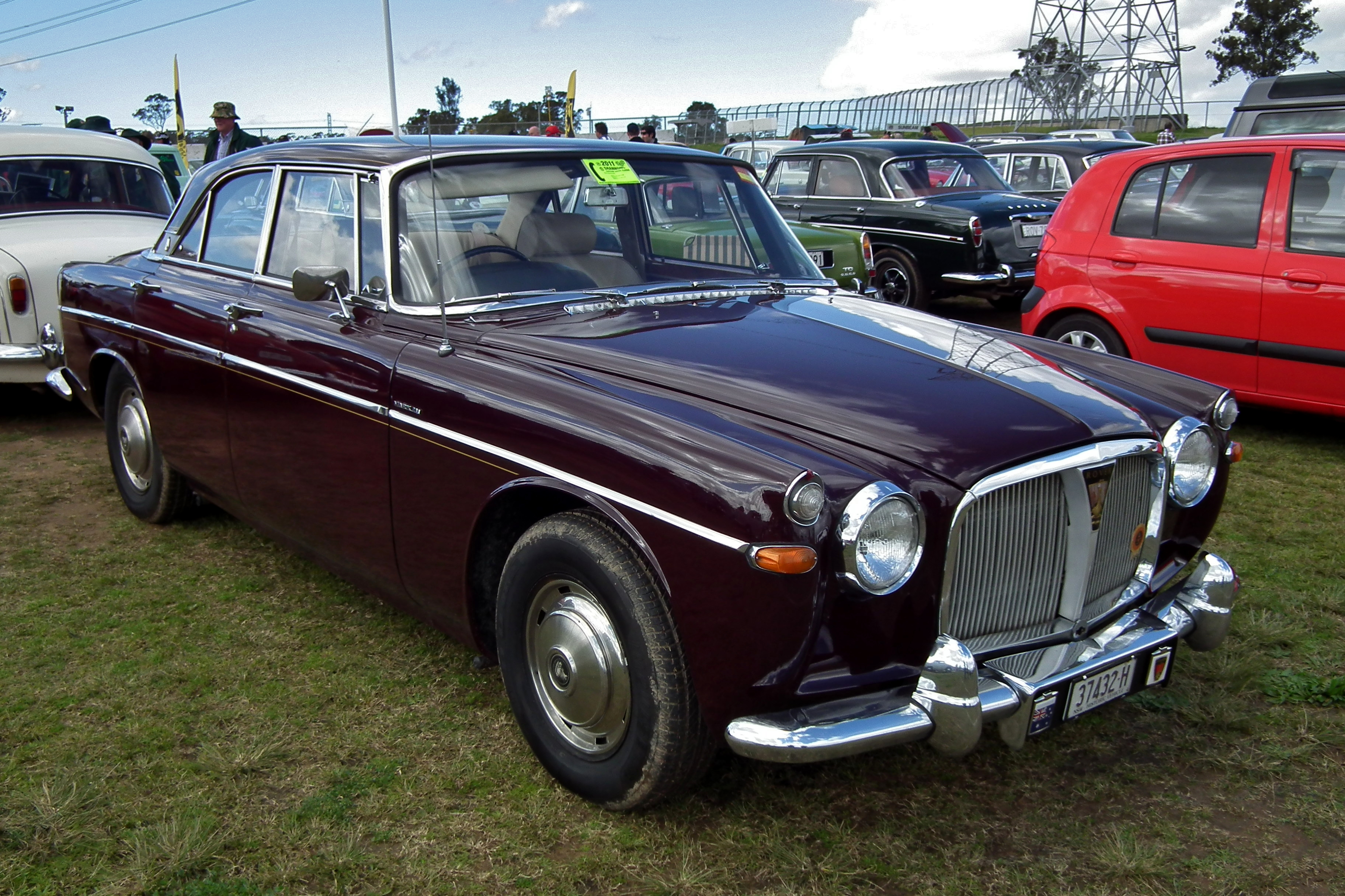 1966 Rover P5 Mk III coupe. Taken at Shannon's Eastern Creek Classic 2011, held at Eastern Creek Raceway Sydney.